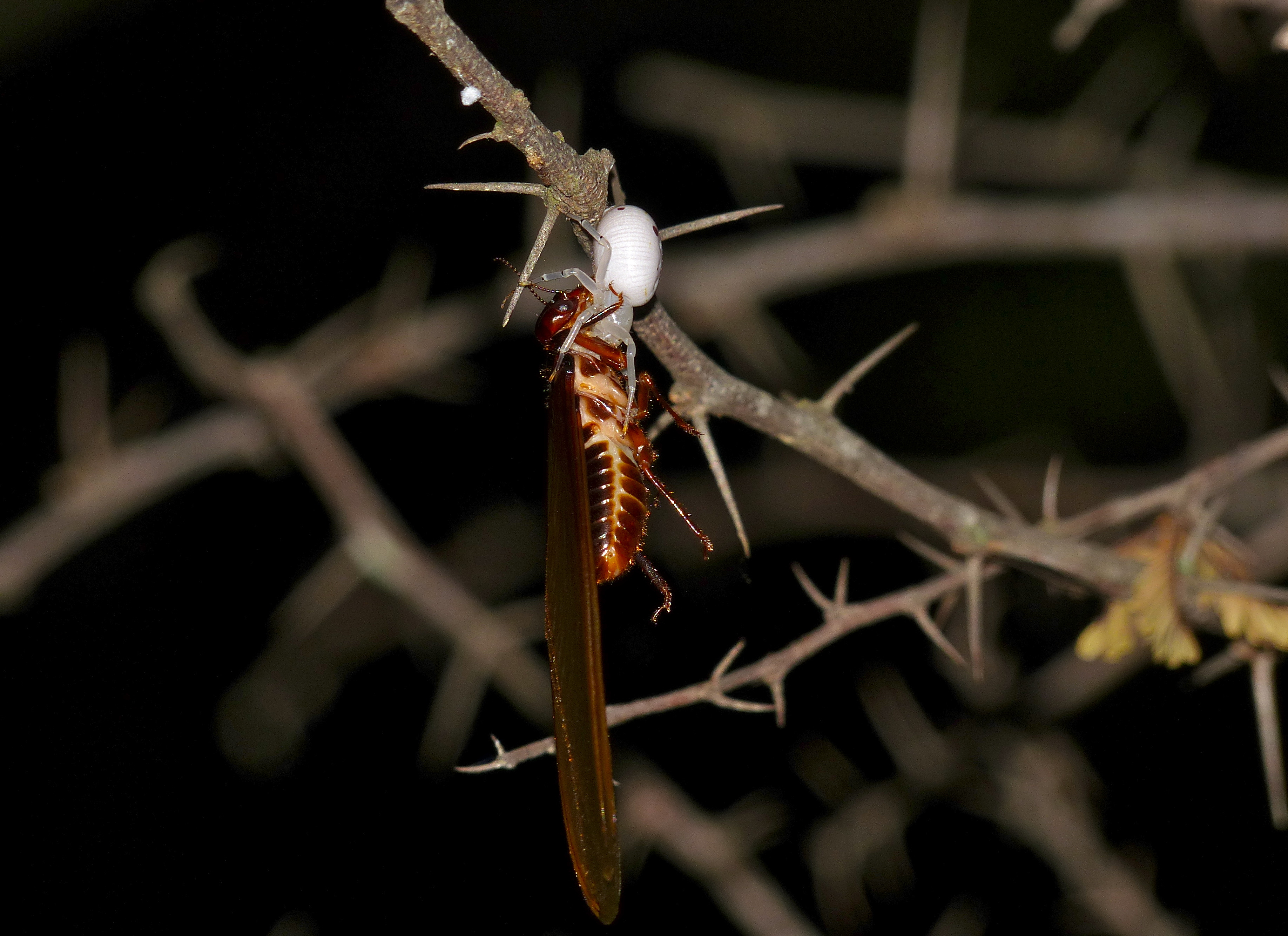 Tamboti Tented Camp, Kruger NP, SOUTH AFRICA